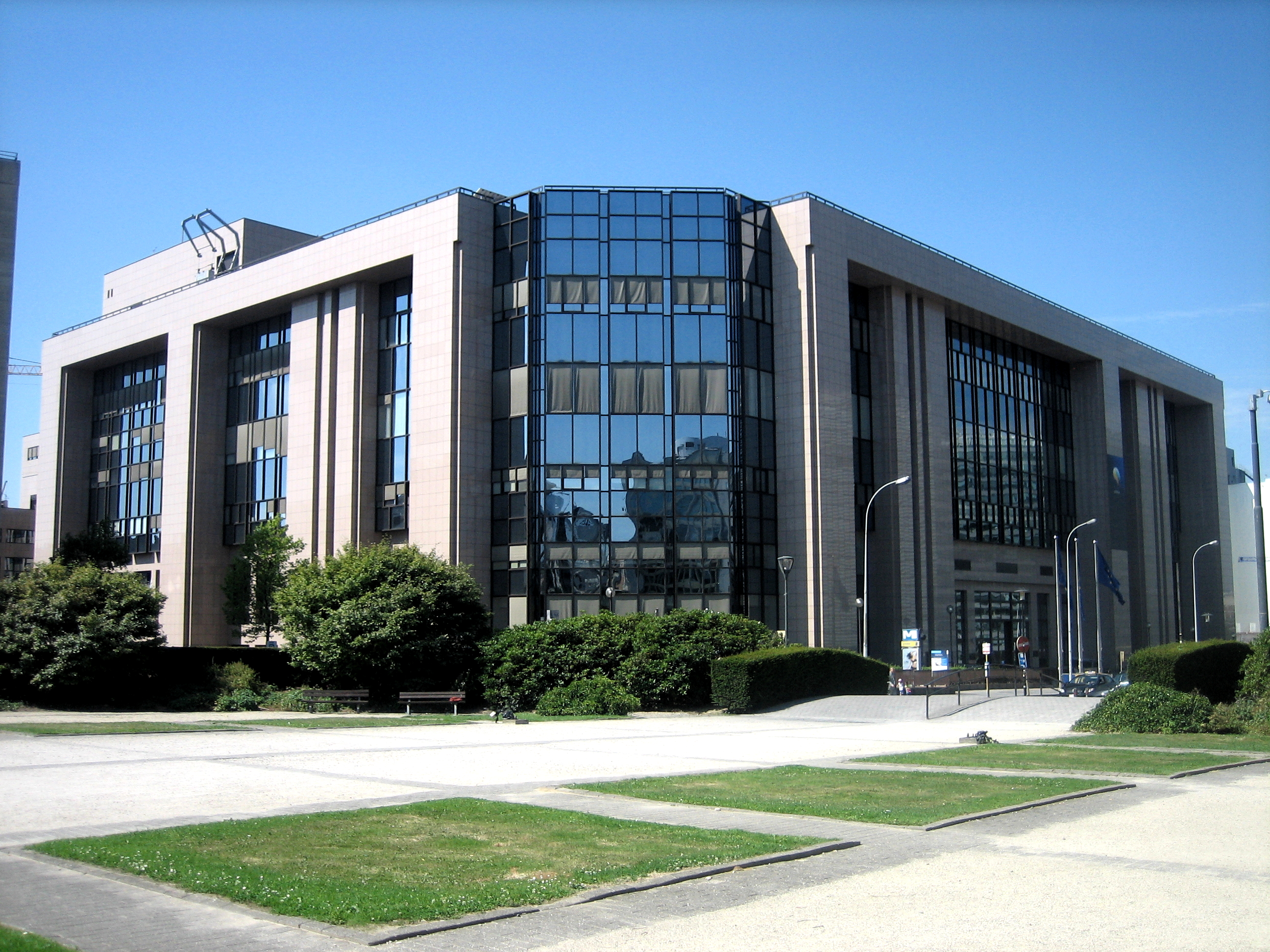 North West corner of the Justus Lipsius building (headquarters of the Council of the European Union), seen from Schuman Roundabout.